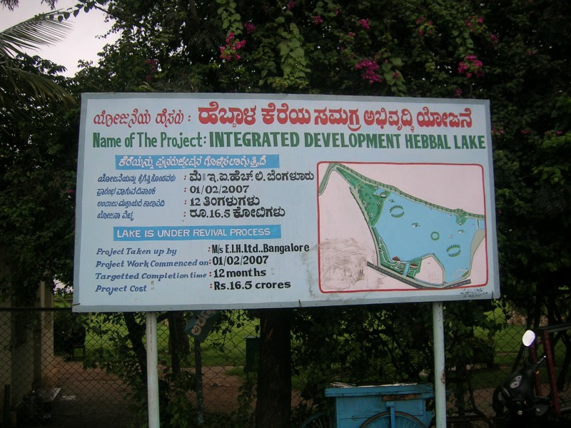 Board in front of Hebbal Lake, Bangalore